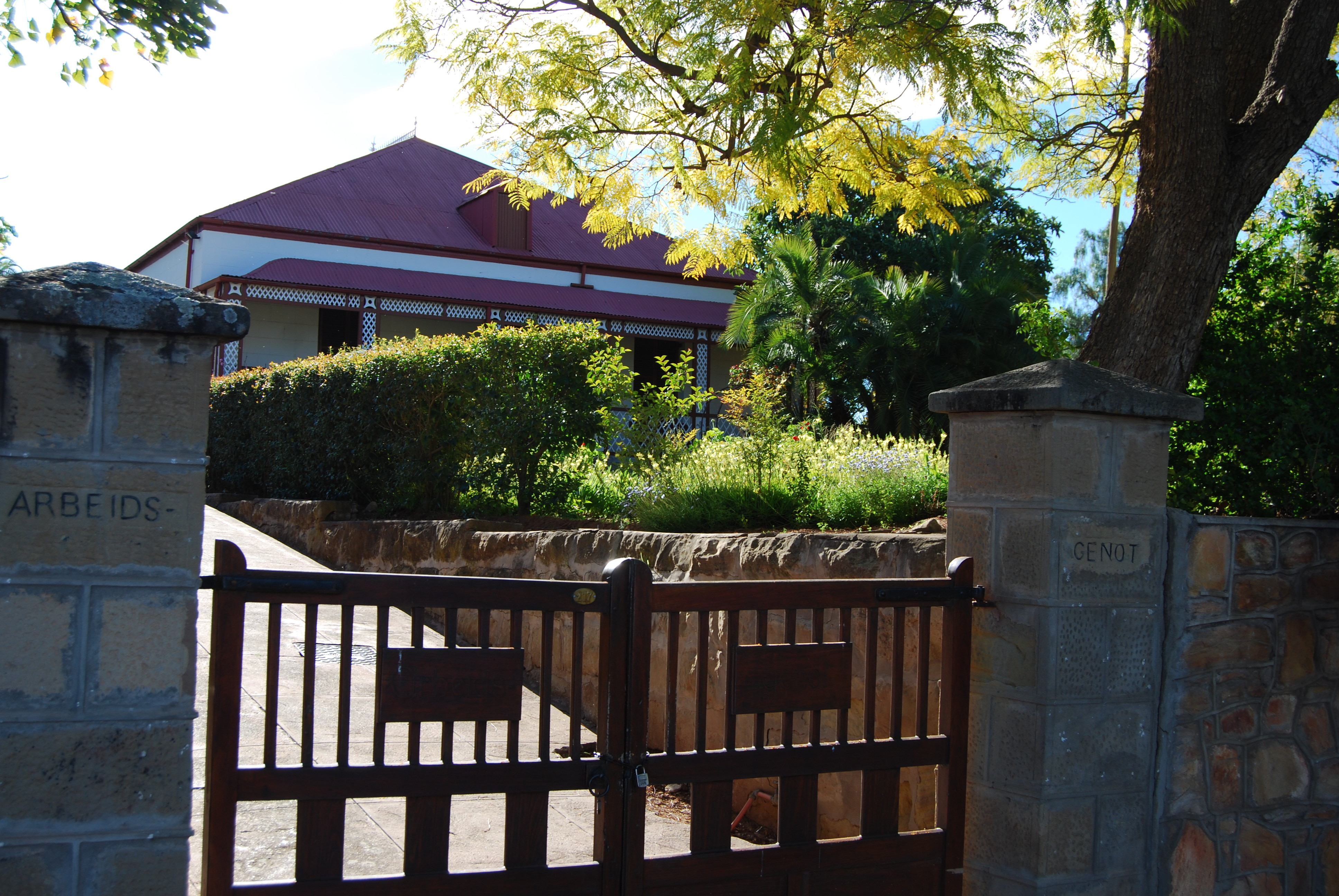 Home of CJ Langenhoven in Oudtshoorn This media shows a South African Protected Site with SAHRA file reference 9/2/068/0002.